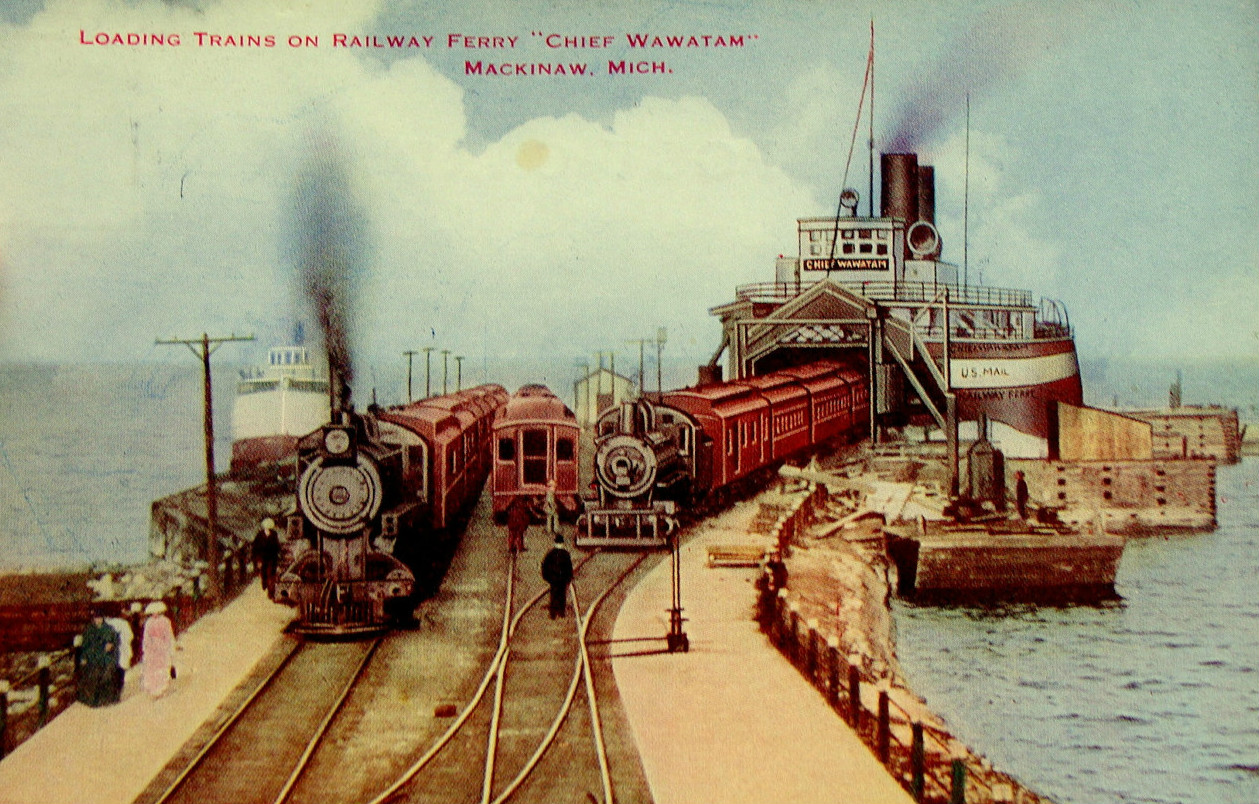 Colorized postcard photo of the SS Chief Wawatam train ferry at Mackinaw, Michigan.